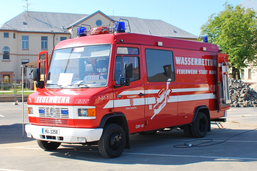 The equipment car water rescue (GW-W) of the voluntary fire brigade Maintal